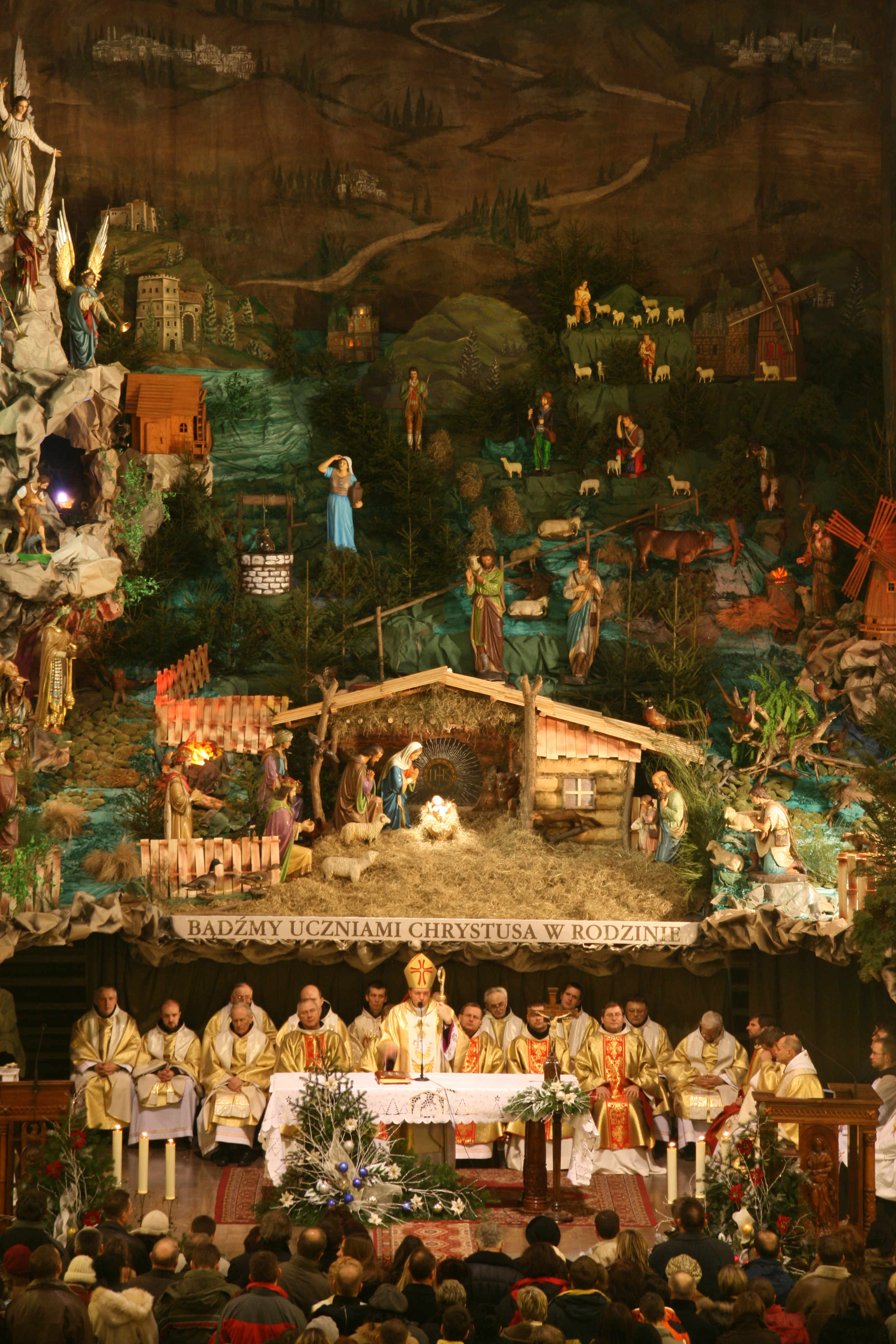 Crib in Katowice Panewniki, Poland (2007, Mass in the front of the manger)